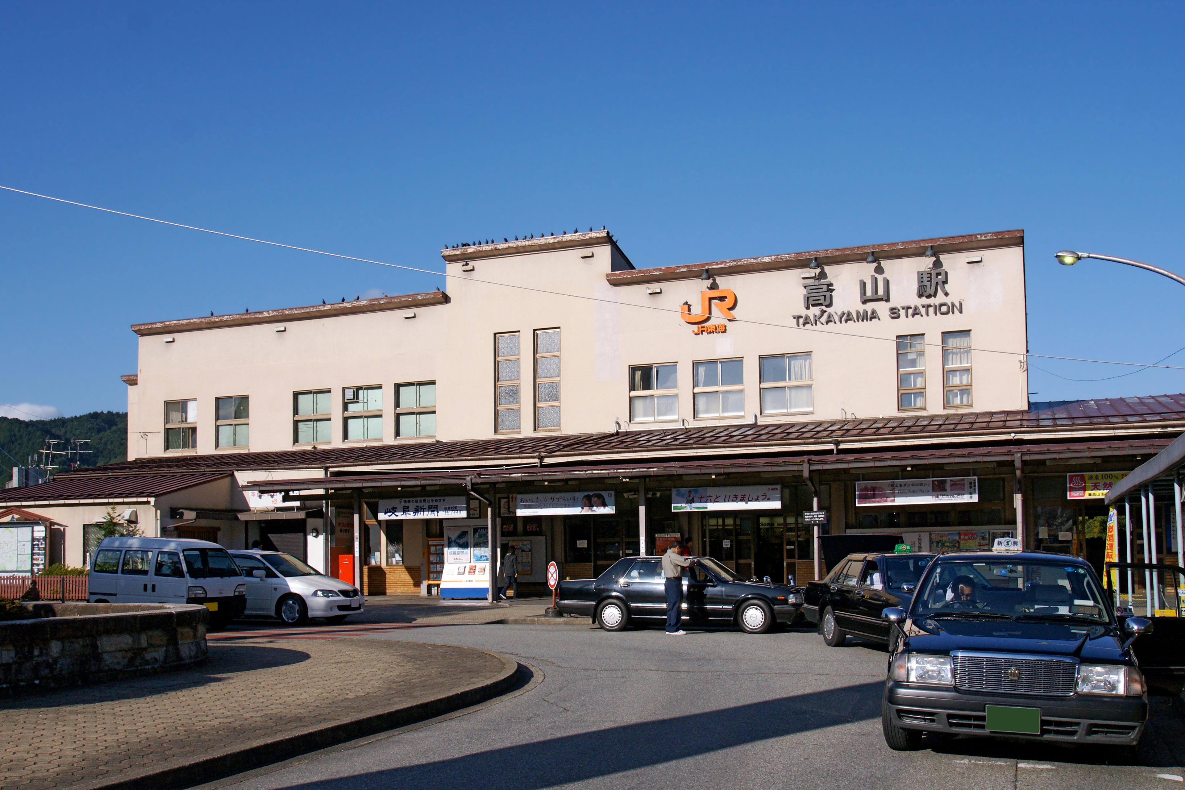 Takayama Station in Takayama, Gifu prefecture, Japan